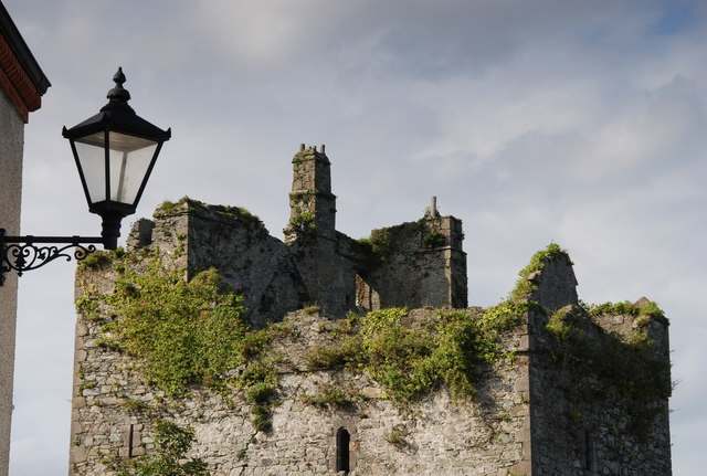 Taaffe's Castle Carlingford